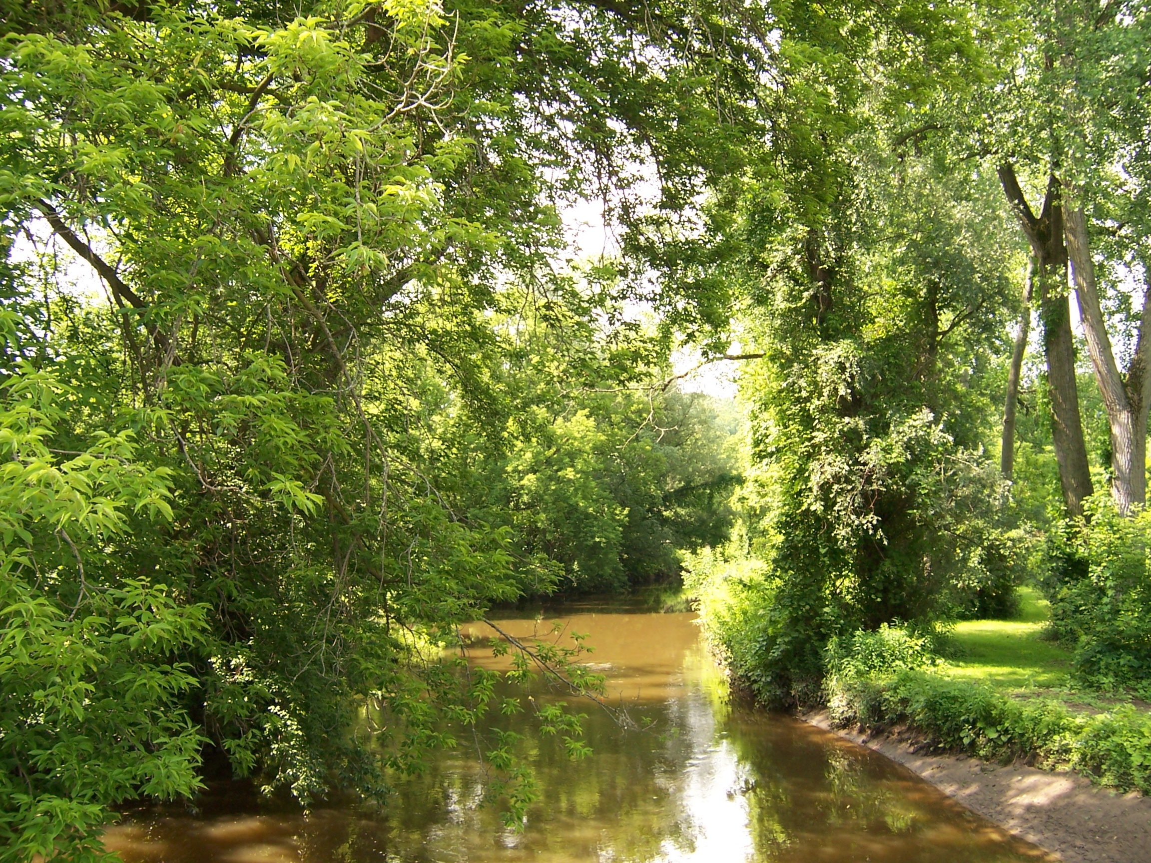 Irondequoit Creek in the town of Penfield, New York. This is looking south from Blossom Road; Ellison Park is on the right, the Daisy Flour Mill is just off-camera to the left.